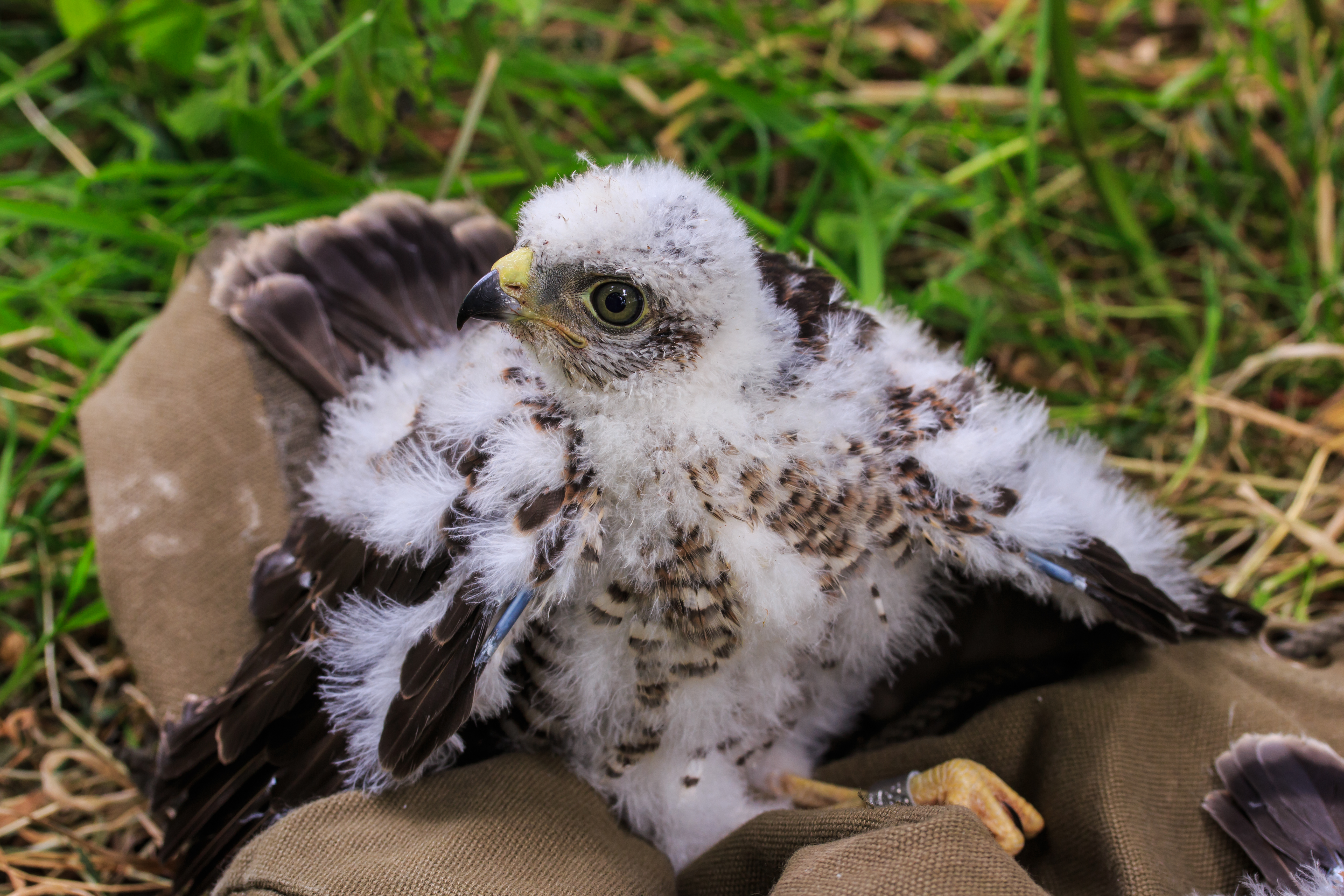 Young Sparrowhawk (Accipiter nisus) is ringed. Location, Natuurterrein The Famberhorst in the Netherlands.